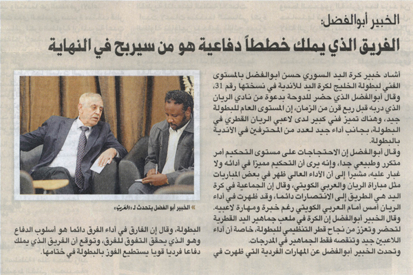 hasan abolfadl حسن ابوالفضل